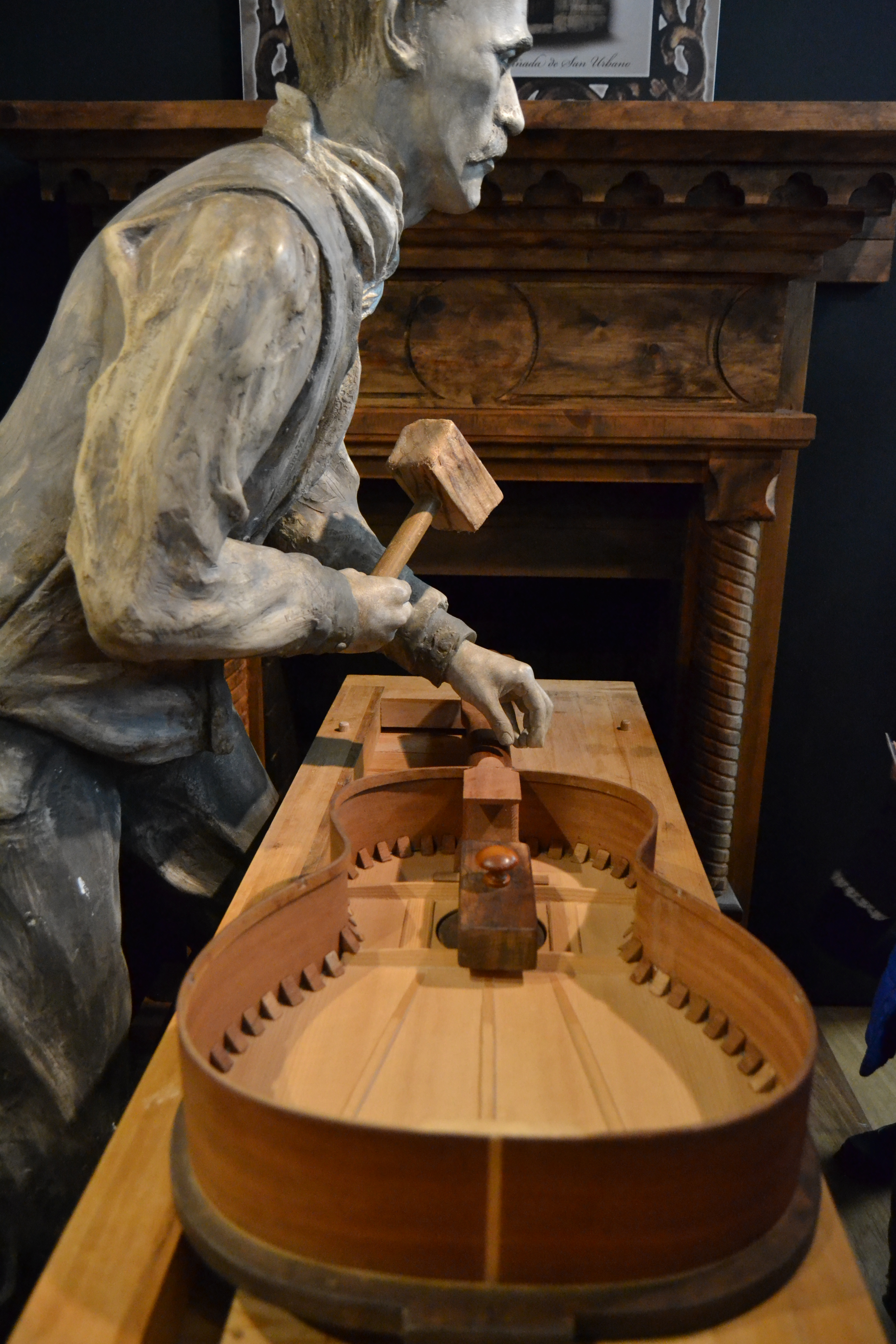 Luthiers of Almeria